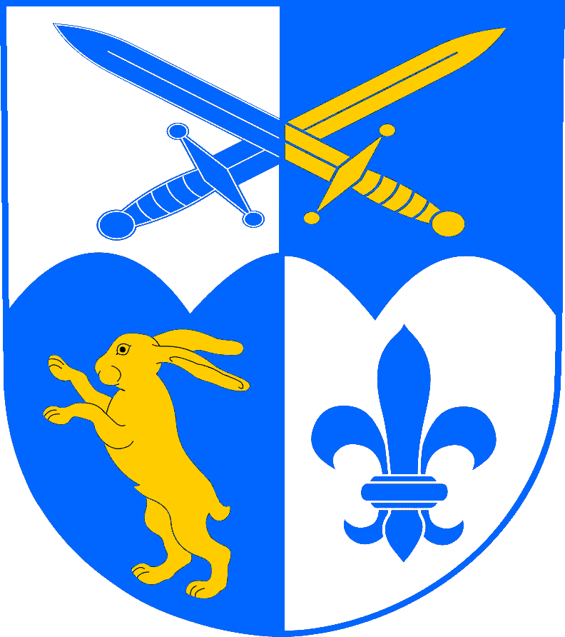 Coat of arms of Brdy Military Training Area, a quasimunicipality in Příbram District, Czech Republic.